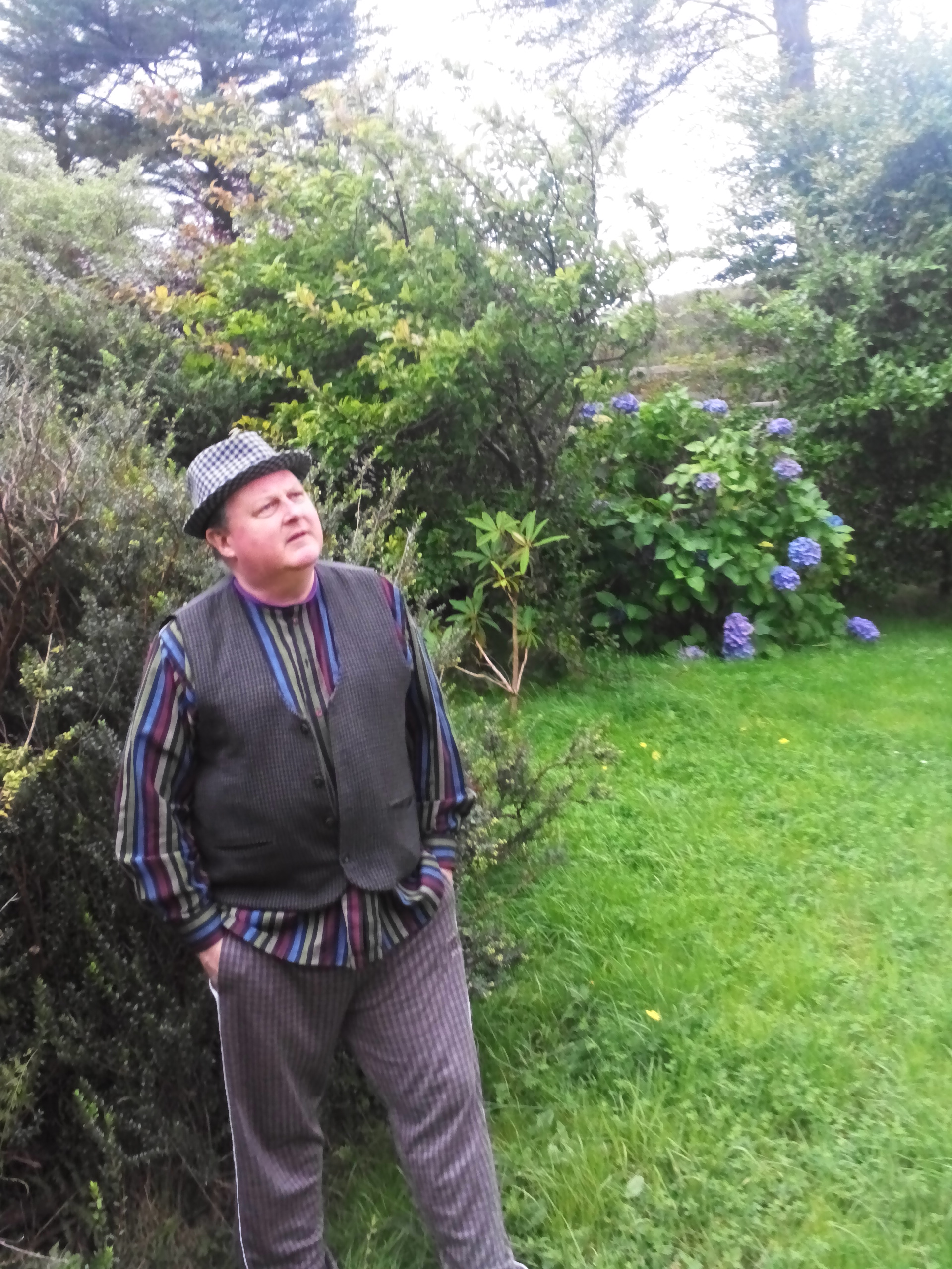 Photo of the poet Cathal Ó Searcaigh